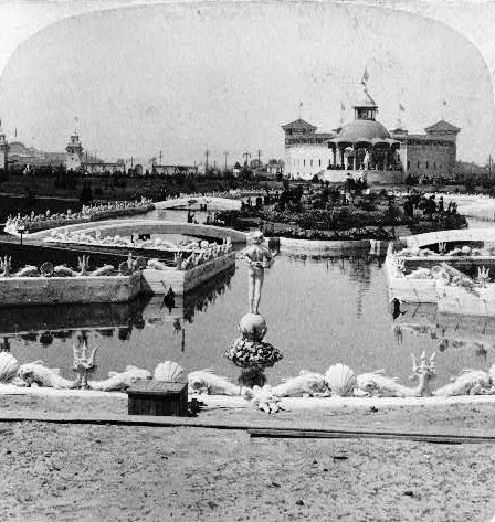 This image is available from the United States Library of Congress's Prints and Photographs division under the digital ID cph.3c02335. This tag does not indicate the copyright status of the attached work. A normal copyright tag is still required. See Commons:Licensing for more information. This image (or other media file) is in the public domain because its copyright has expired. This applies to Australia, the European Union and those countries with a copyright term of life of the author plus 70 years. You must also include a United States public domain tag to indicate why this work is in the public domain in the United States. Note that a few countries have copyright terms longer than 70 years: Mexico has 100 years, Colombia has 80 years, and Guatemala and Samoa have 75 years, Russia has 74 years for some authors. This image may not be in the public domain in these countries, which moreover do not implement the rule of the shorter term. Côte d'Ivoire has a general copyright term of 99 years and Honduras has 75 years, but they do implement the rule of the shorter term. This file has been identified as being free of known restrictions under copyright law, including all related and neighboring rights.